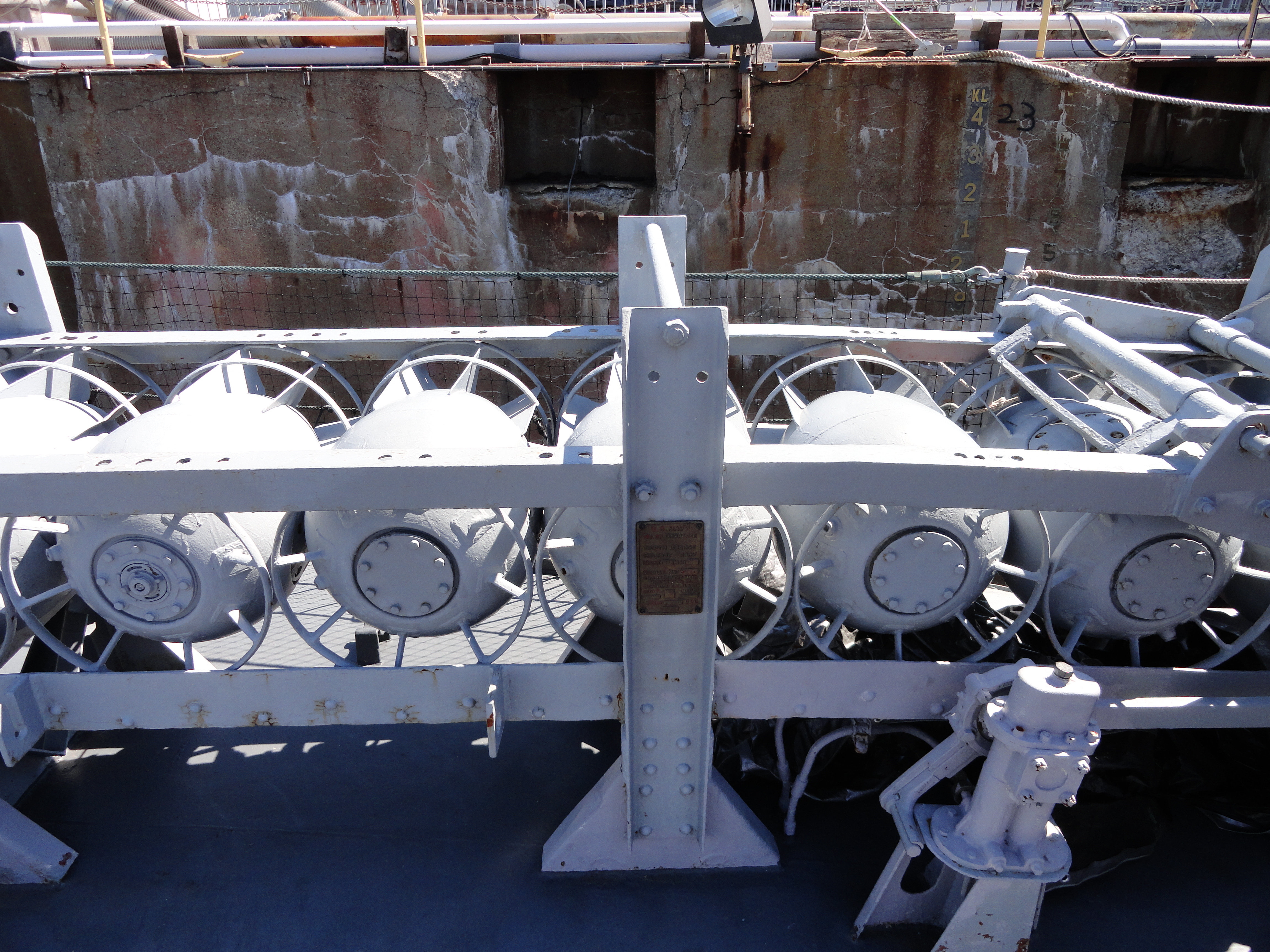 Mark IX depth charges on the starboard stern of the USS Cassin Young (DD-793).